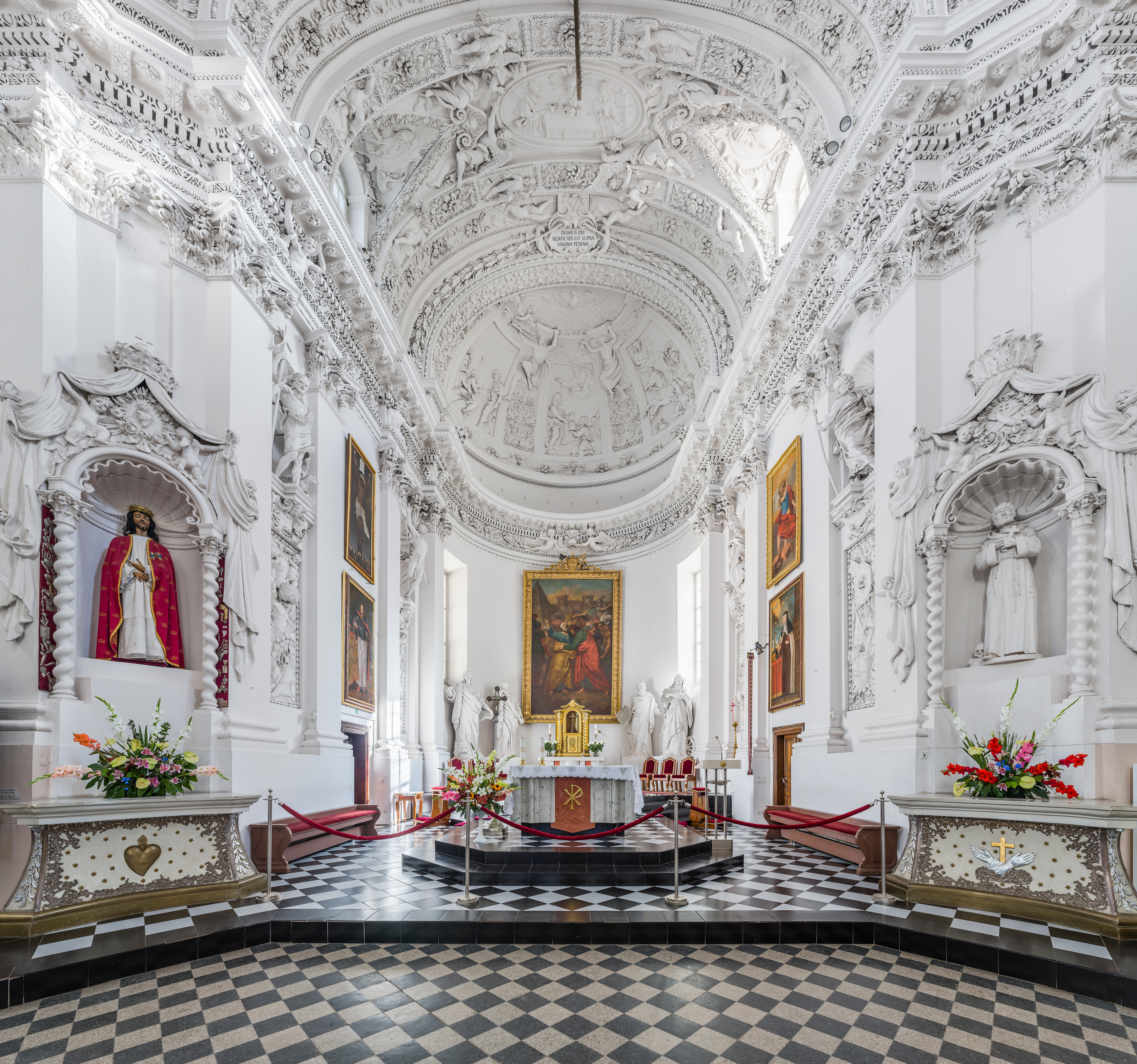 St. Peter and St. Paul's Church in Vilnius, Lithuania.